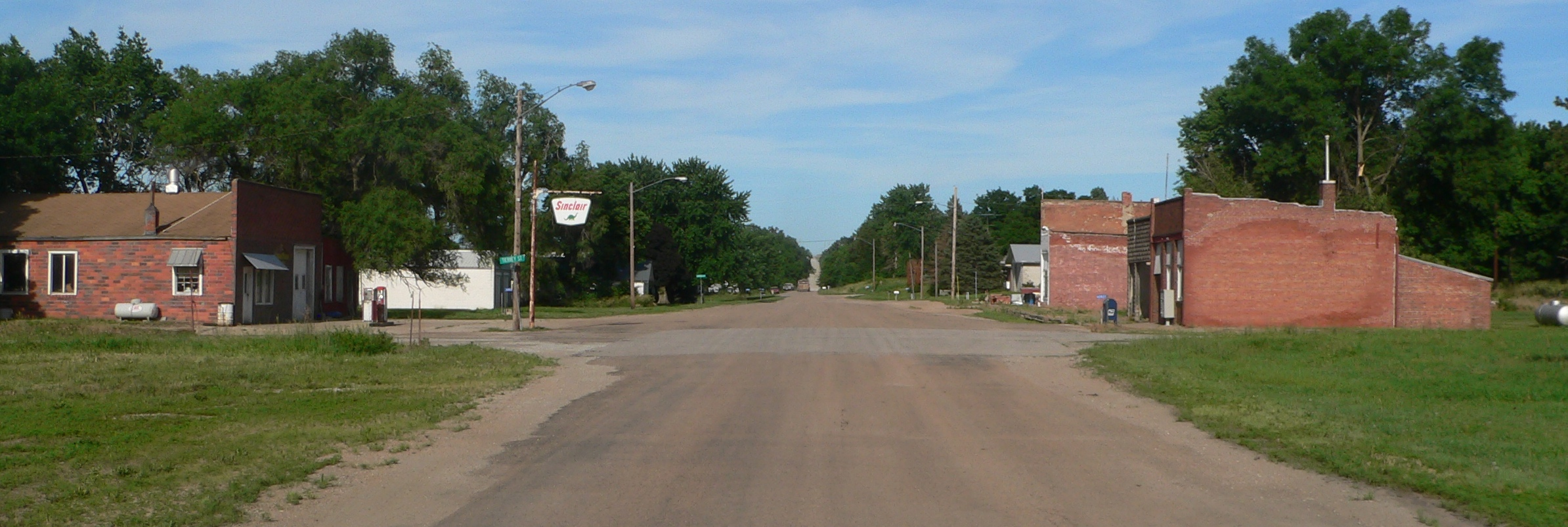 Crab Orchard, Nebraska: 725 Rd, looking east from a point west of Tierney Street. The building to the right is the post office.